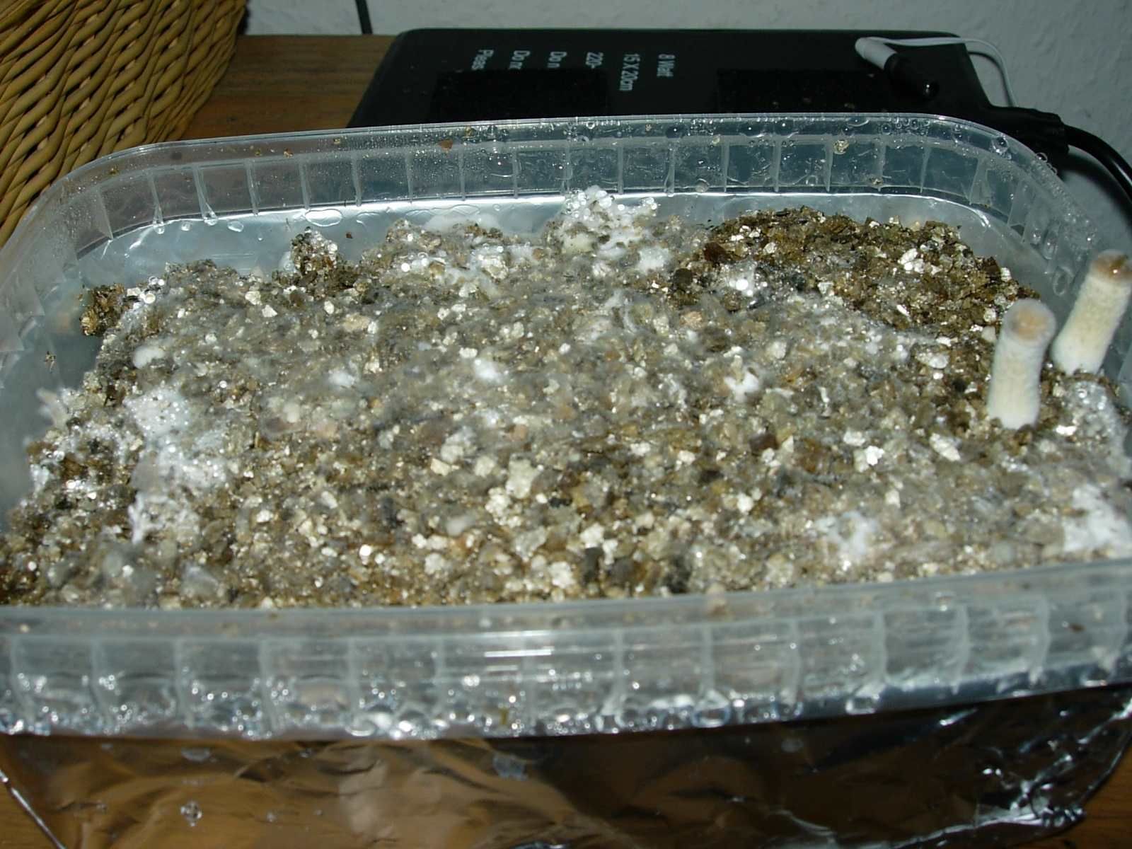 Psilocybe Cubensis casing, contaminated with Dactylium Dendroides (Cobweb).